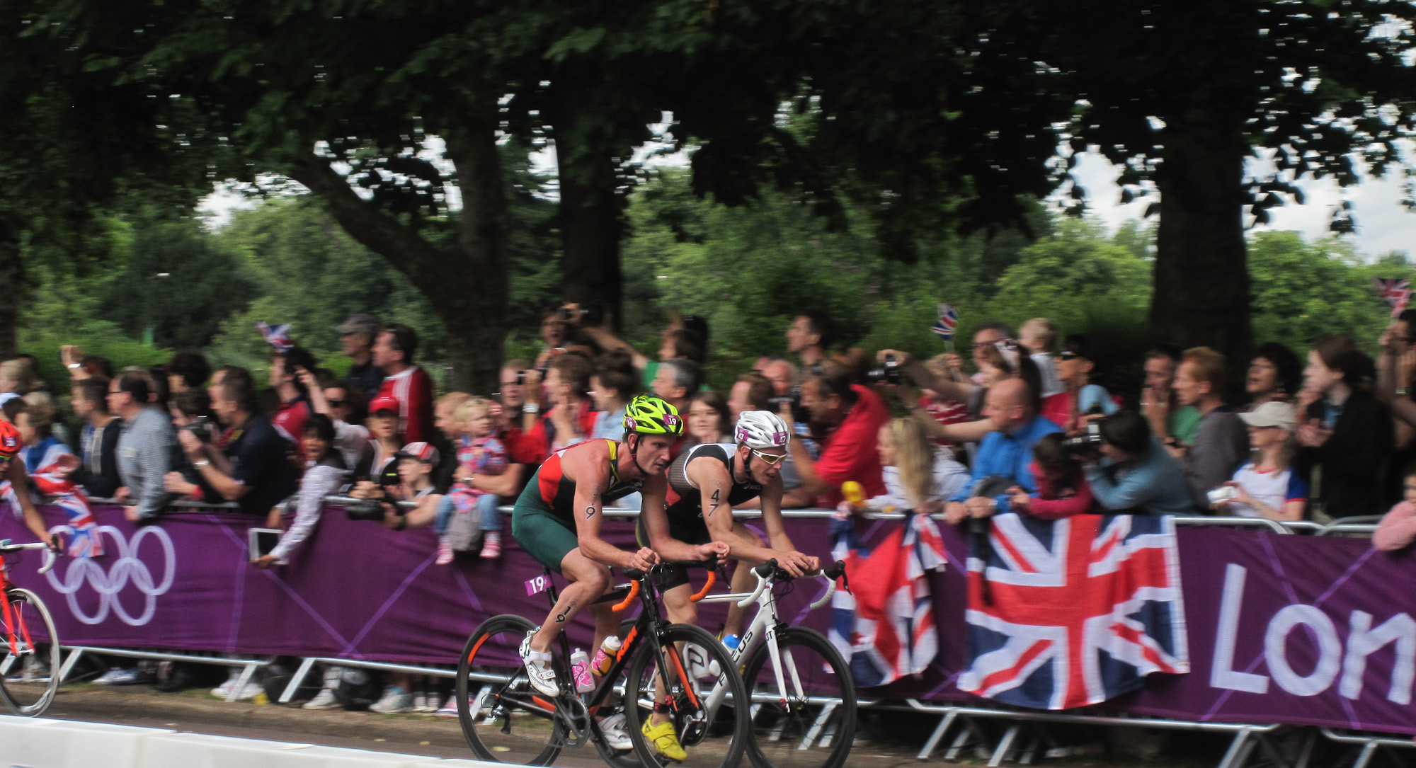 Steffen Justus (Germany) and Richard Murray (South Africa), Men's triathlon, 2012 Summer Olympics